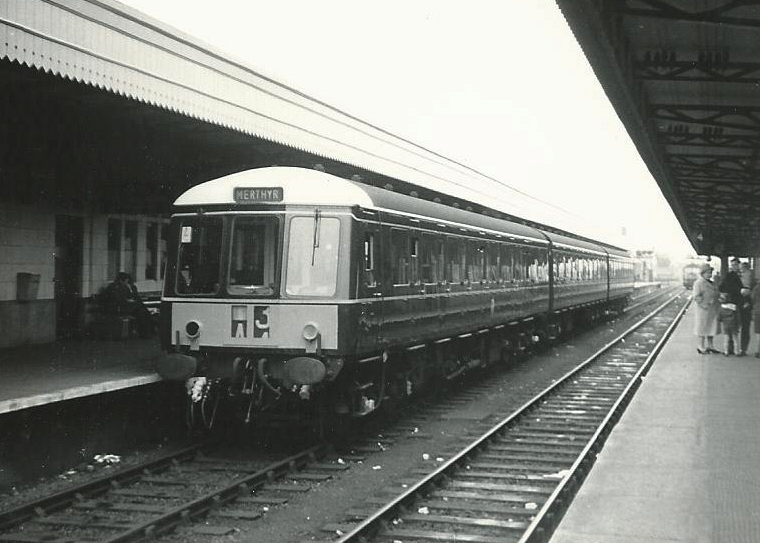 BR (Derby) Class 116 3-car suburban dmu Nos.W50862 (116/2, originally Class 130), W59370 (175), W50915 (116/2, originally Class 130) in BR green with small yellow warning panel at Cardiff (General) on a service to Merthyr Tydfil, 10/65. Scanned photograph taken with a Halina 35X camera.